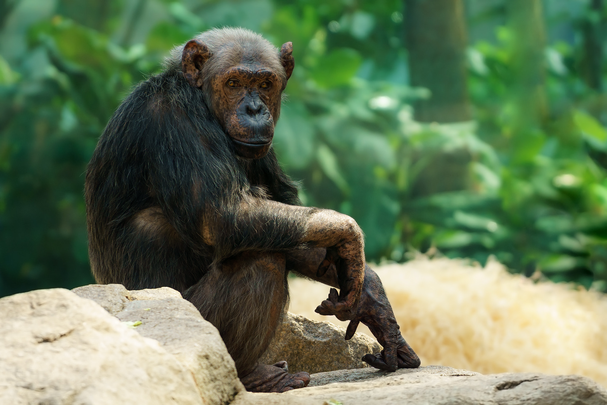 500px provided description: M?nchen, Germany [#color ,#nature ,#old ,#outdoor ,#monkey ,#animal ,#green ,#alpha ,#sony ,#germany ,#zoo ,#wildlife ,#portait ,#wild ,#ape ,#mirrorless ,#6000 ,#2015 ,#Deutschland ,#Tier ,#Natur ,#Chimpanzee ,#Munich ,#M?nchen ,#Affe ,#Schimpanse ,#Primat ,#ilce ,#a6000 ,#fe70200/4]